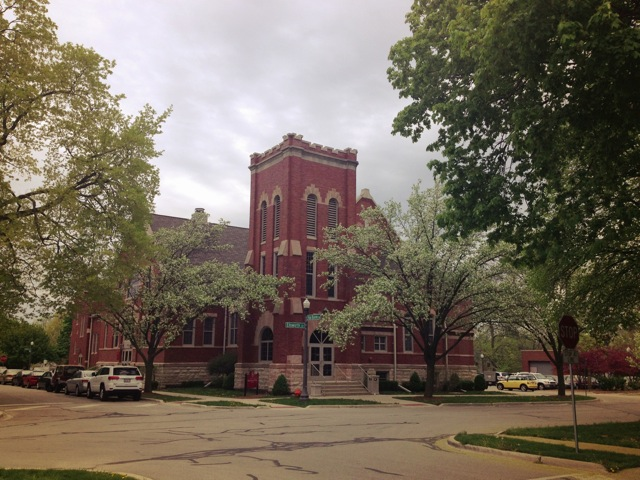 Miley Swallow Hall